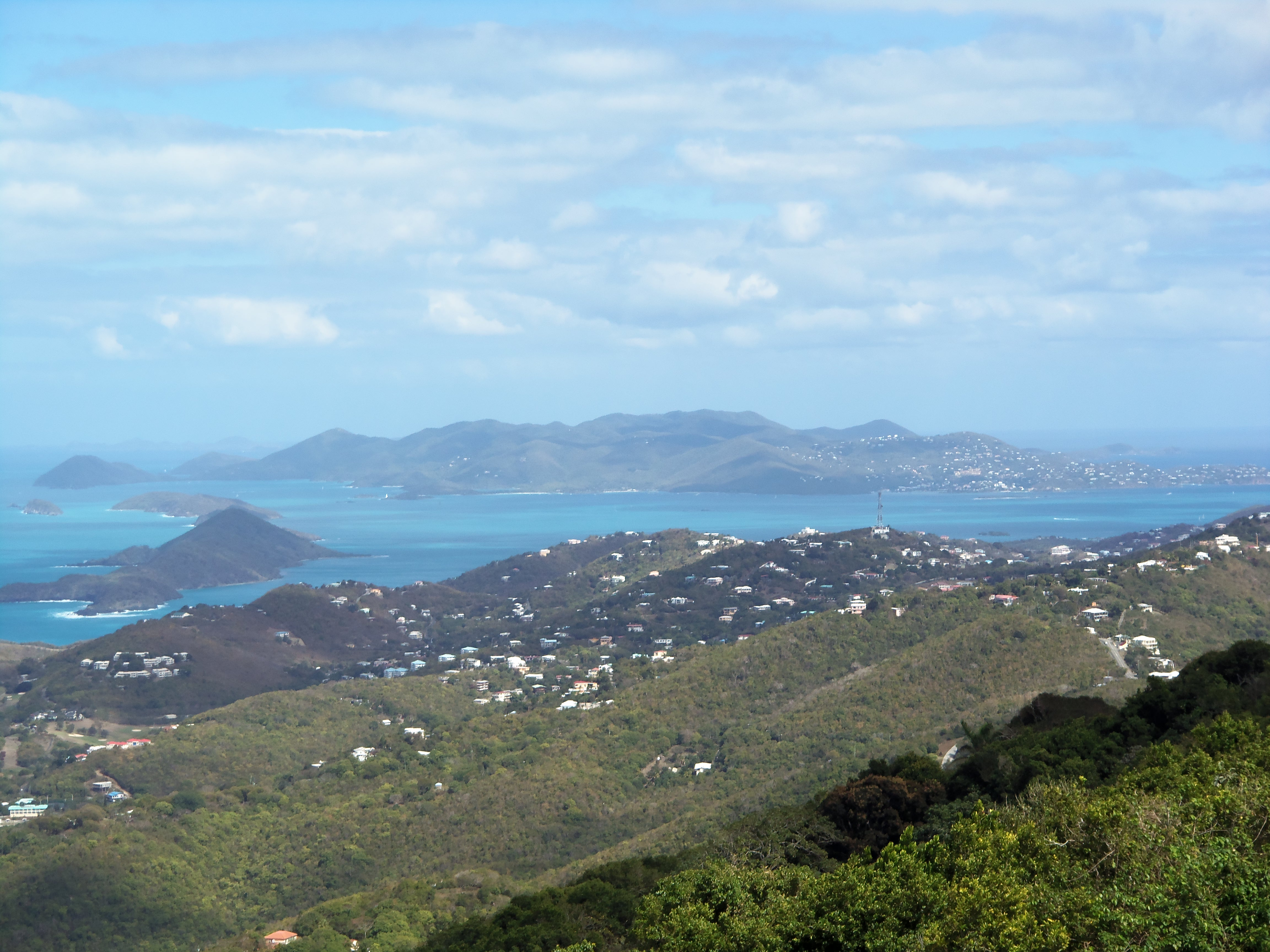 St. John, United States Virgin Islands from the upper elevation of St. Thomas, USVI